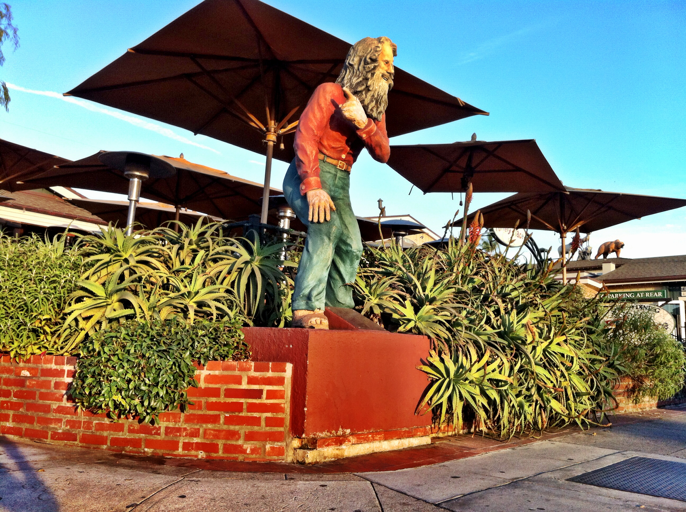 Statue of Eiler Larsen, on public display on Pacific Coast Highway in Laguna Beach, California since its creation in the 1960s by sculptor Charles Beauvais